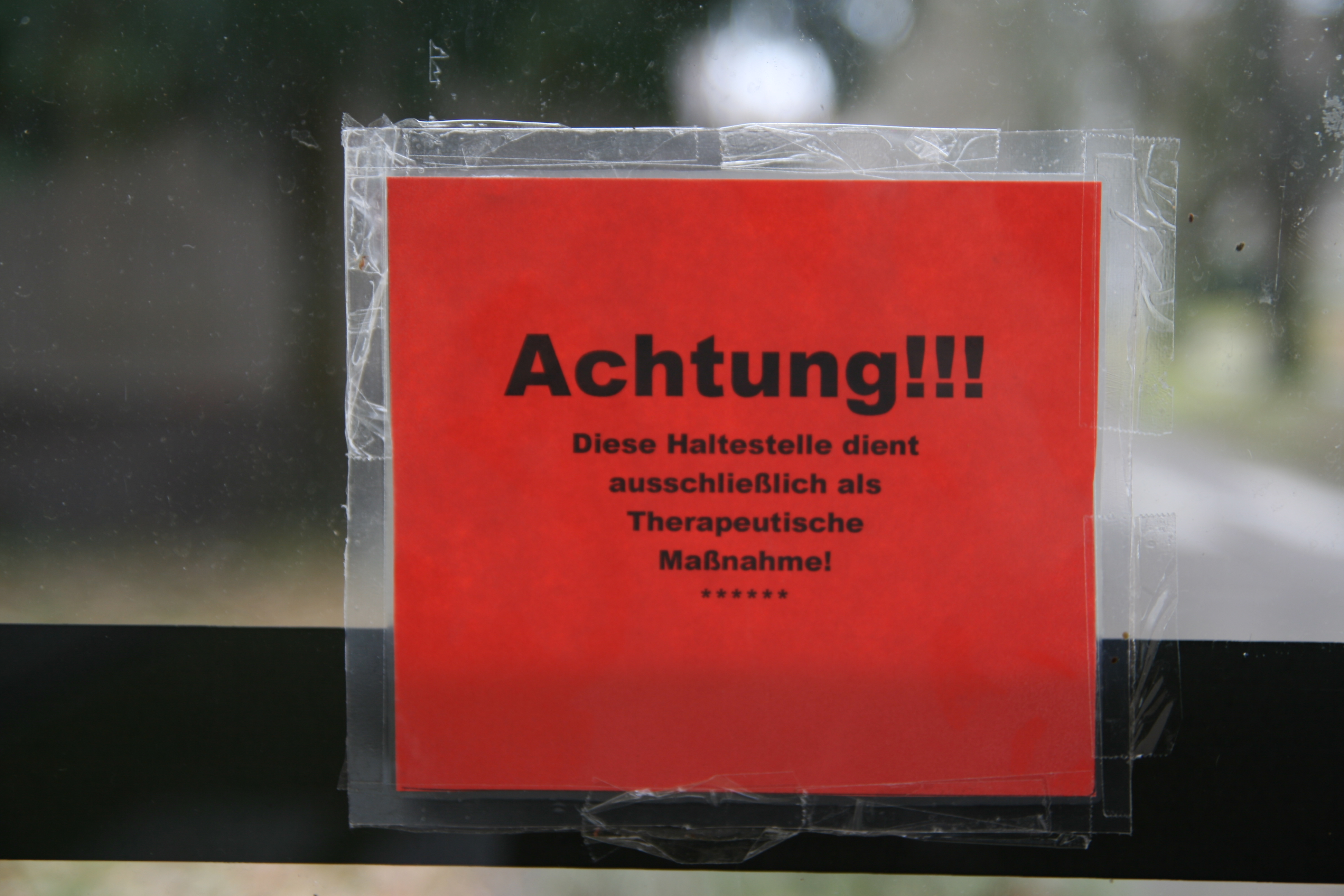 Warning notice on a false bus stop in Cologne's Riehler Heimstätten, a nursing home, telling that it was installed solely as a therapeutic measure (for dementia patients).